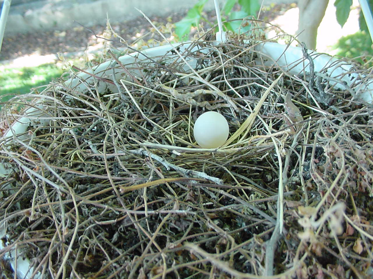 Mourning Dove Egg